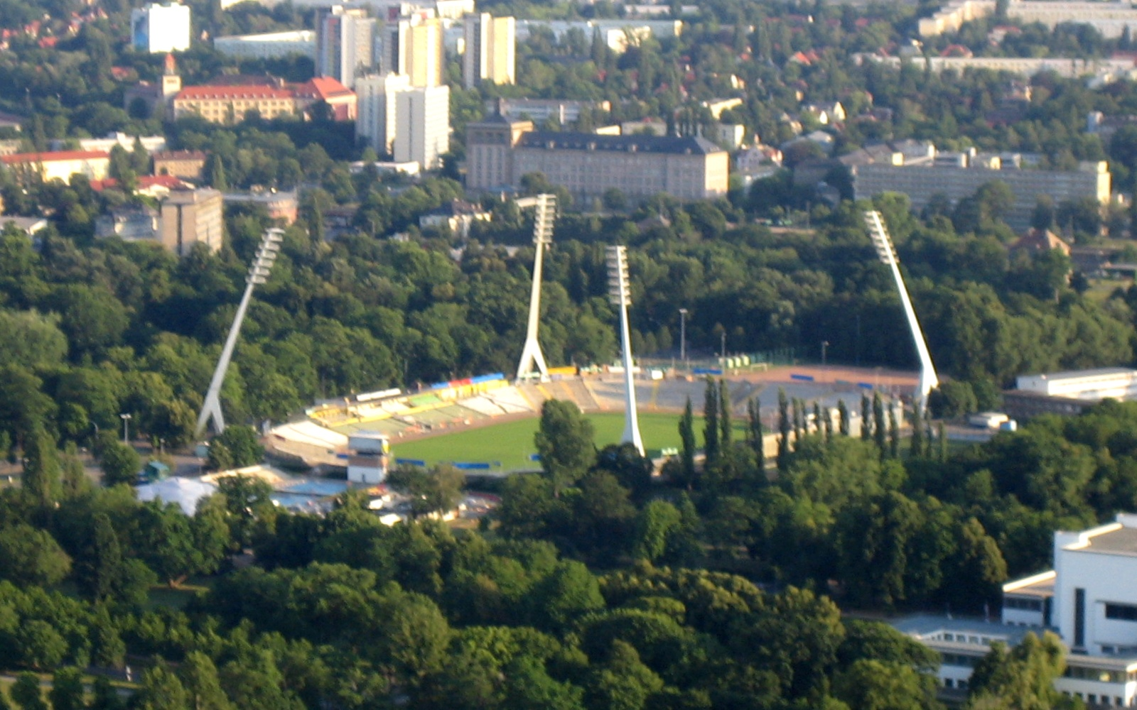 Aerial view of the Rudolf-Harbig-Stadion, a multi-use stadium in Dresden, Germany (2006)